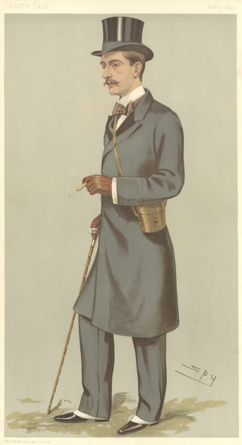 Caricature of Mr Albert Frederick Calvert (1872-1946). Caption read "Westralia". Biography